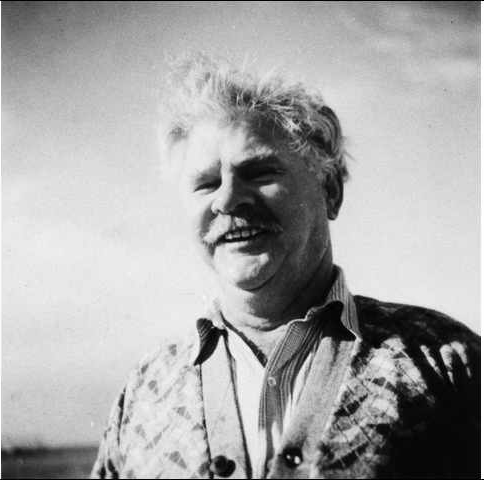 Ted Colson 1938. Public domain in Australia if published prior to 1955. Photo from Charles P. Mountford collection, held in the State Library of South Australia. Item No. B8496